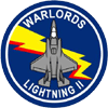 Unit logo for Marine Fighter Attack Training Squadron 501 (VMFAT-501).